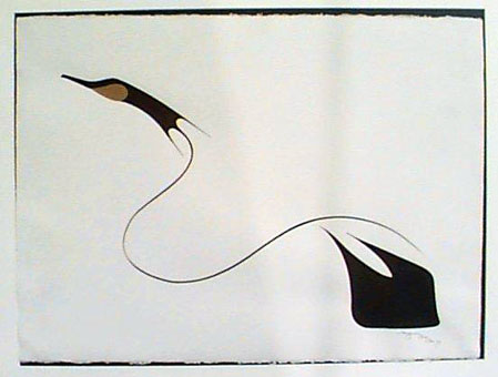 Goose in Flight, an original Chee Chee painting as seen on The Canadian Encyclopedia. This piece is a prime example of the movement and minimalism so often seen in his work.